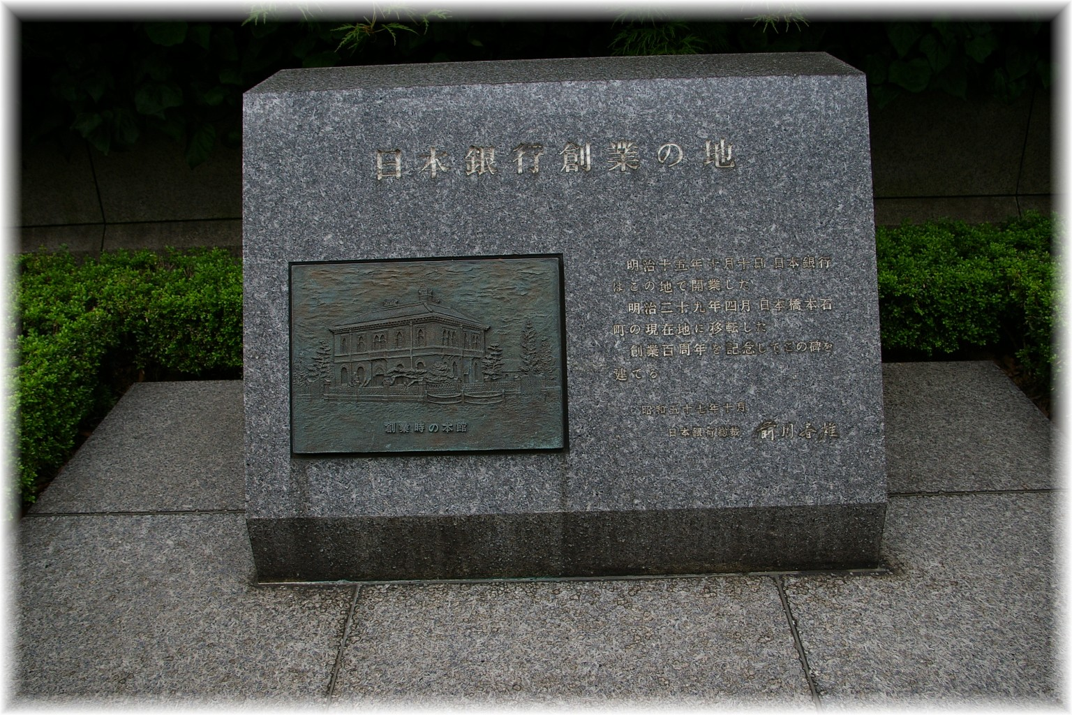 Use in only English Wiki. Ich machte dieses Foto von mir in 2006.